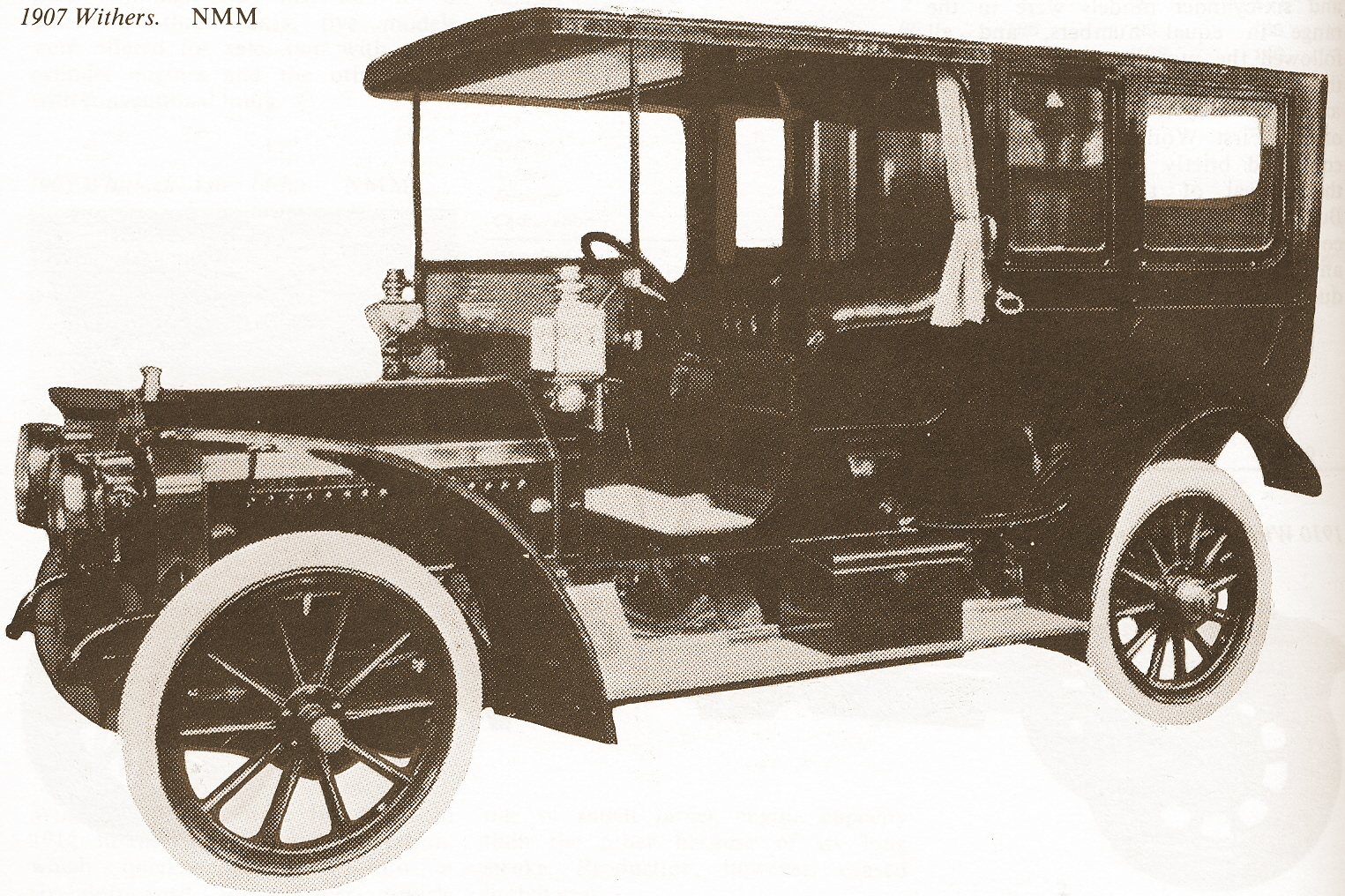 1907 Withers